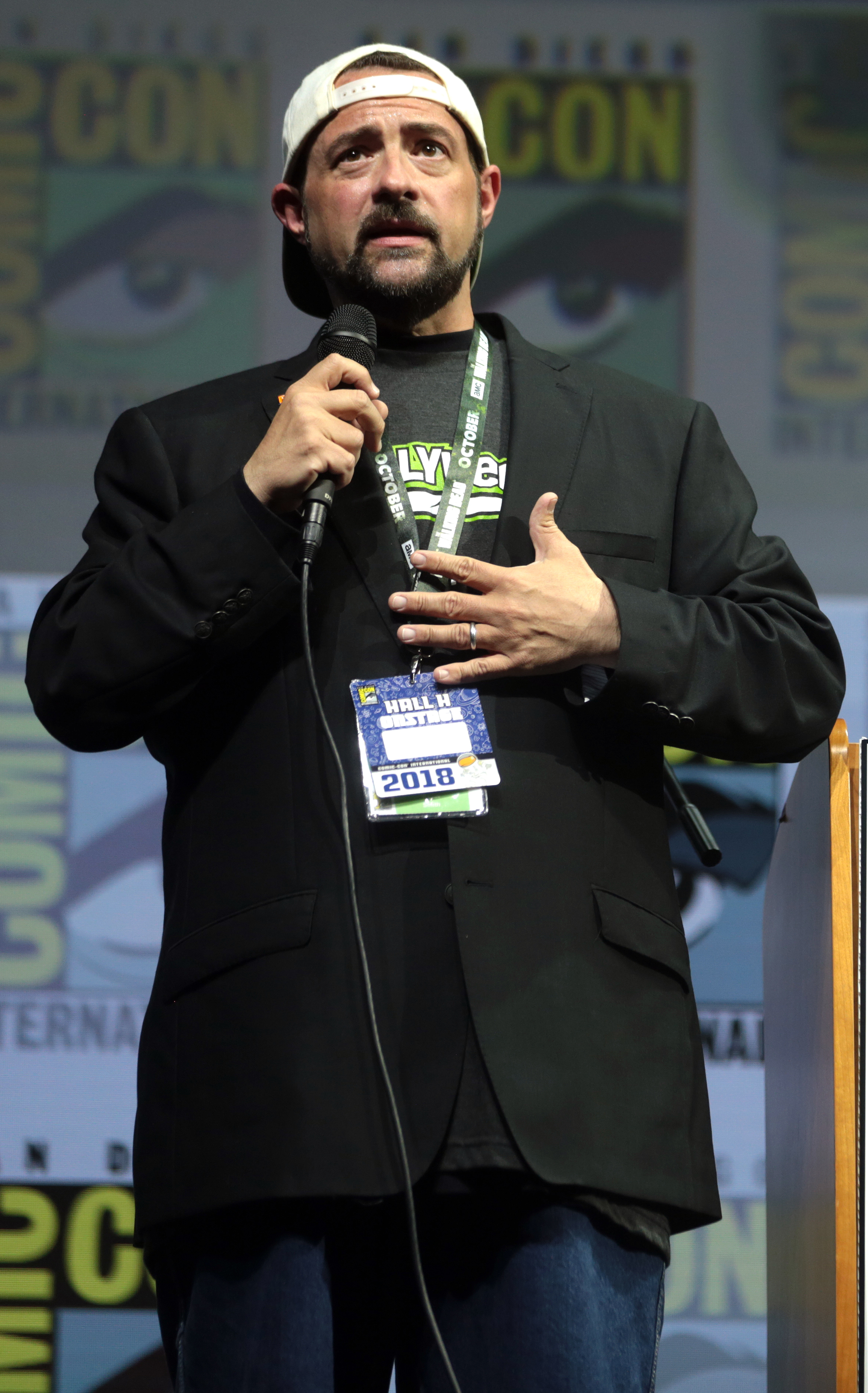 Kevin Smith speaking at the 2018 San Diego Comic Con International at the San Diego Convention Center in San Diego, California.